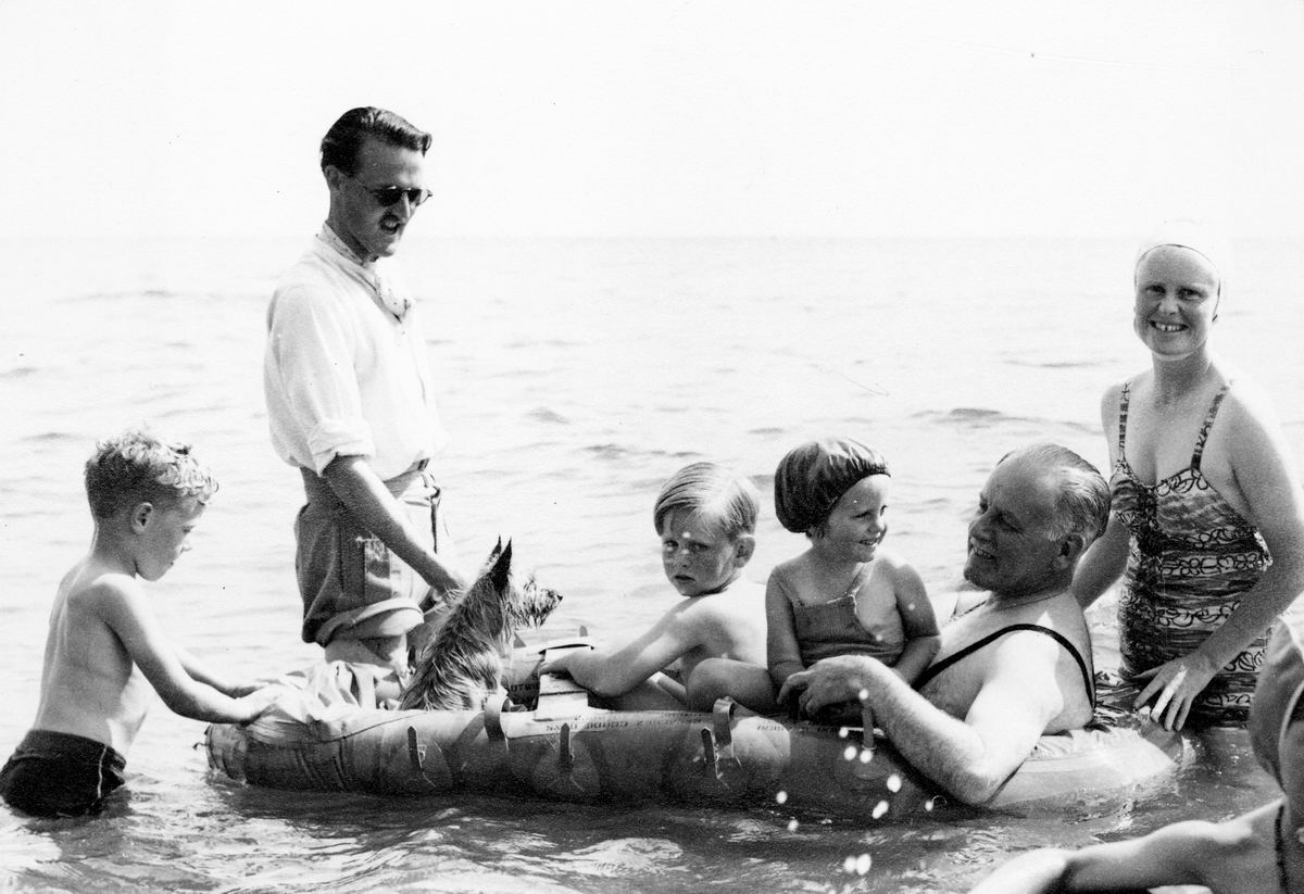 The Governor of South Australia Sir Willoughby Norrie and his family relaxing in the sea at Henley Beach on Saturday 28 December 1946